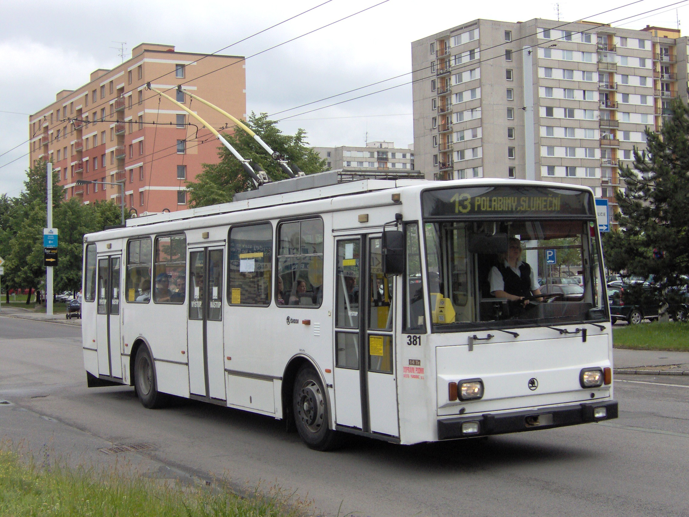 Škoda 14TrM trolleybus, Pardubice, Czech Republic